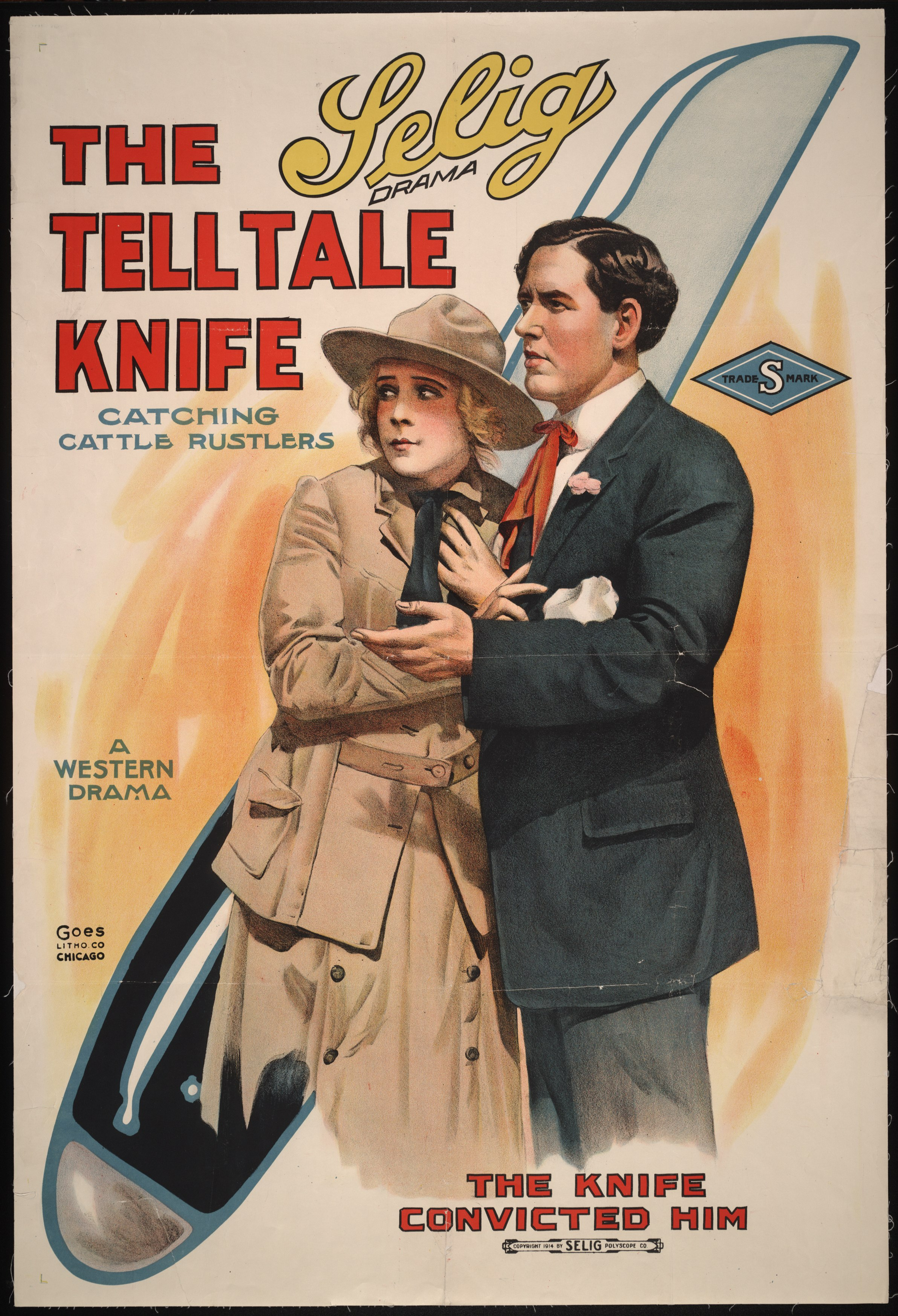 Title: The tell tale knife Catching cattle rustlers. Abstract/medium: 1 print : color lithograph ; sheet 104 x 71 cm. (poster format)